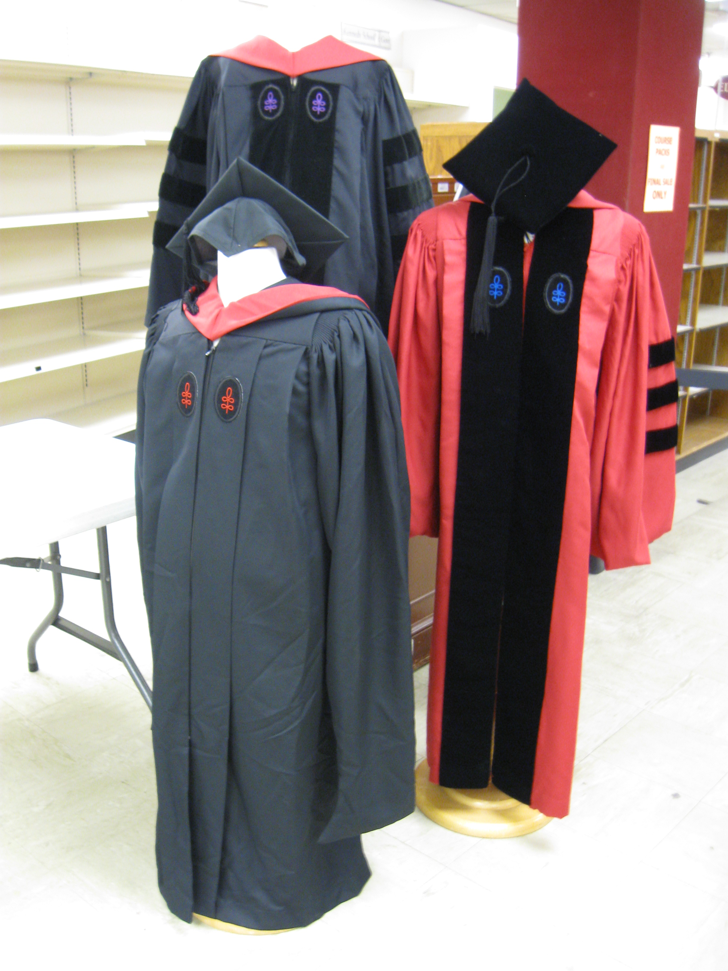 A display of the academic regalia of Harvard University. Top left: Harvard Law School professional doctorate; bottom left: Harvard Divinity School masters degree; right: Graduate School of Arts and Sciences Ph.D. degree